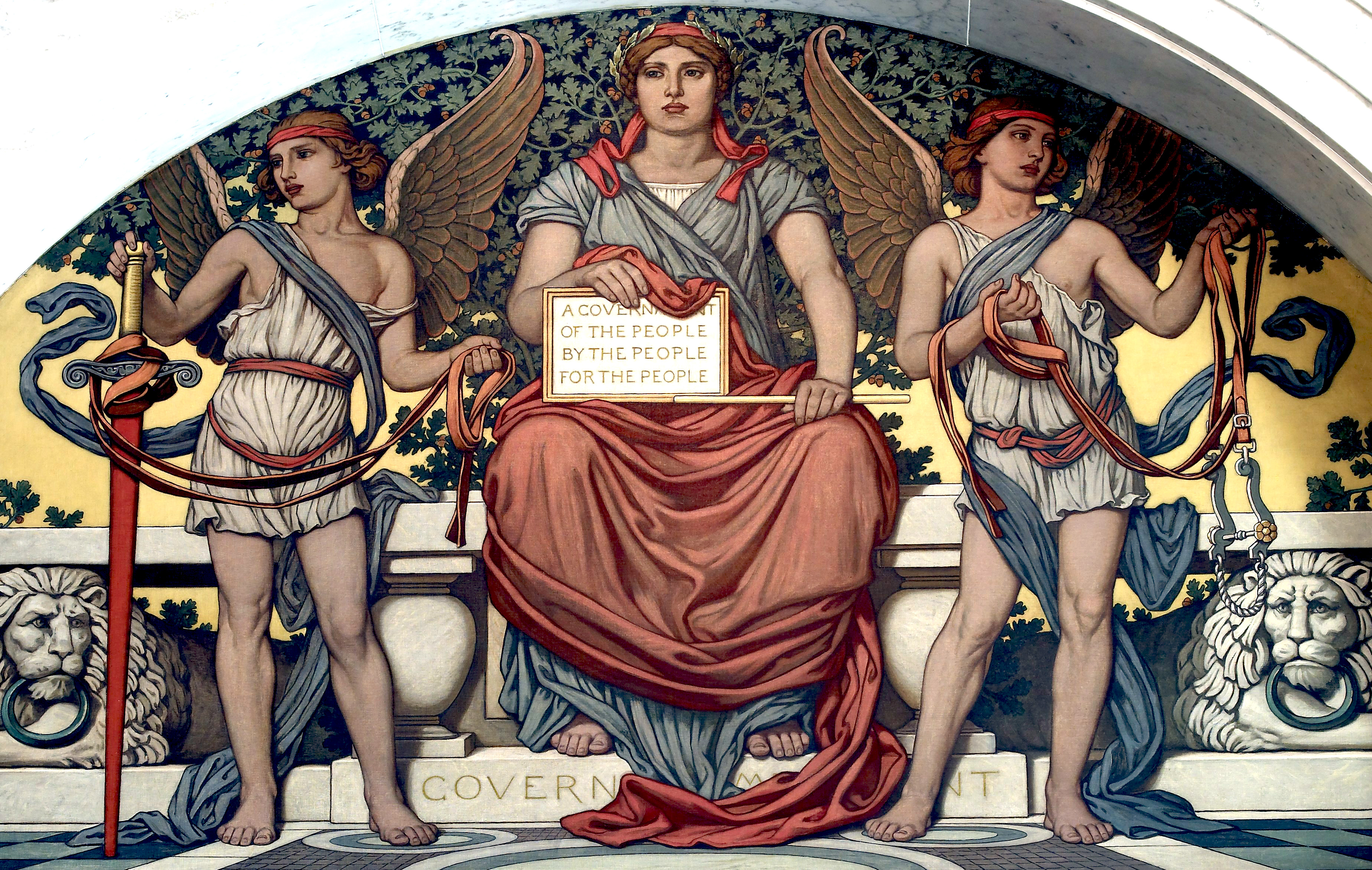 Detail from Government. Mural by Elihu Vedder. Lobby to Main Reading Room, Library of Congress Thomas Jefferson Building, Washington, D.C. Main figure is seated atop a pedestal saying "GOVERNMENT" and holding a tablet saying "A GOVERNMENT / OF THE PEOPLE / BY THE PEOPLE / FOR THE PEOPLE". Artist's signature is "ELIHU VEDDER / ROMA–1896".